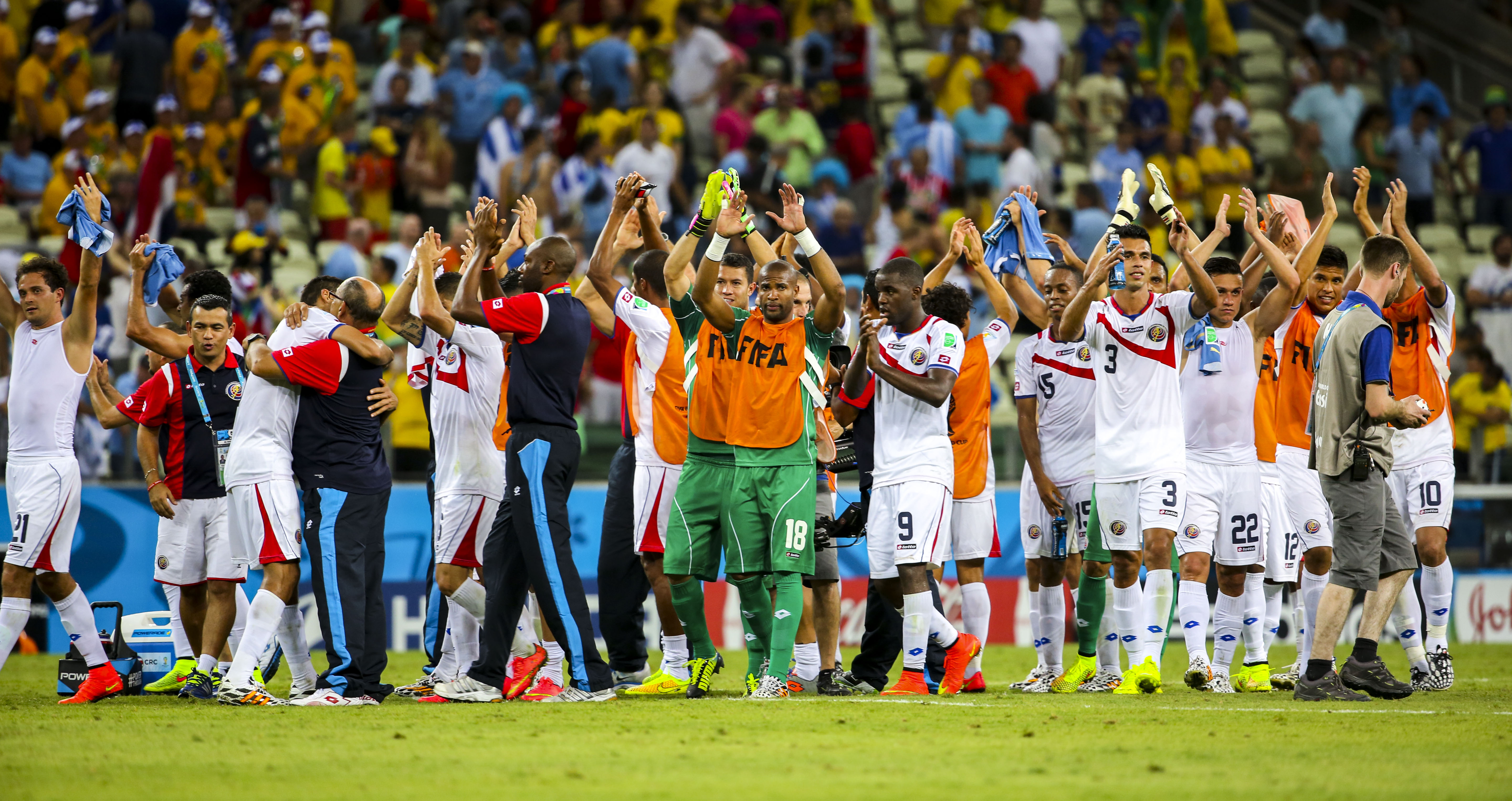 Uruguay and Costa Rica match at the FIFA World Cup 2014-06-14